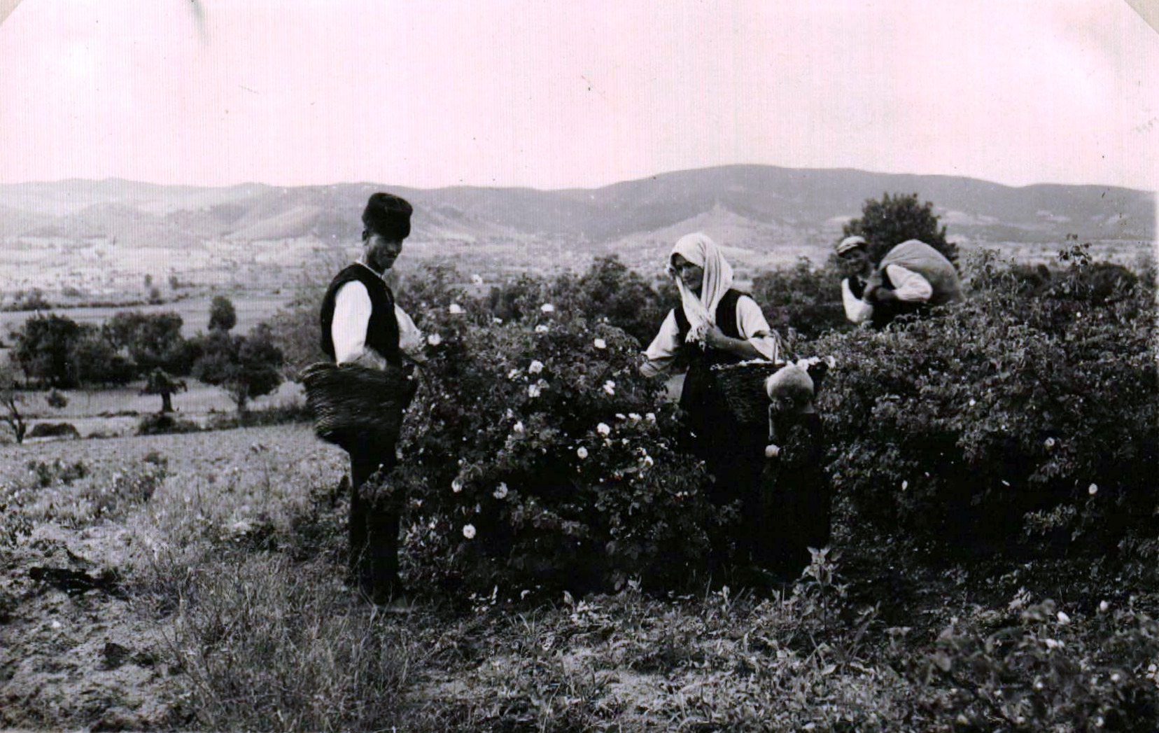 Rose harvests in Bulgaria